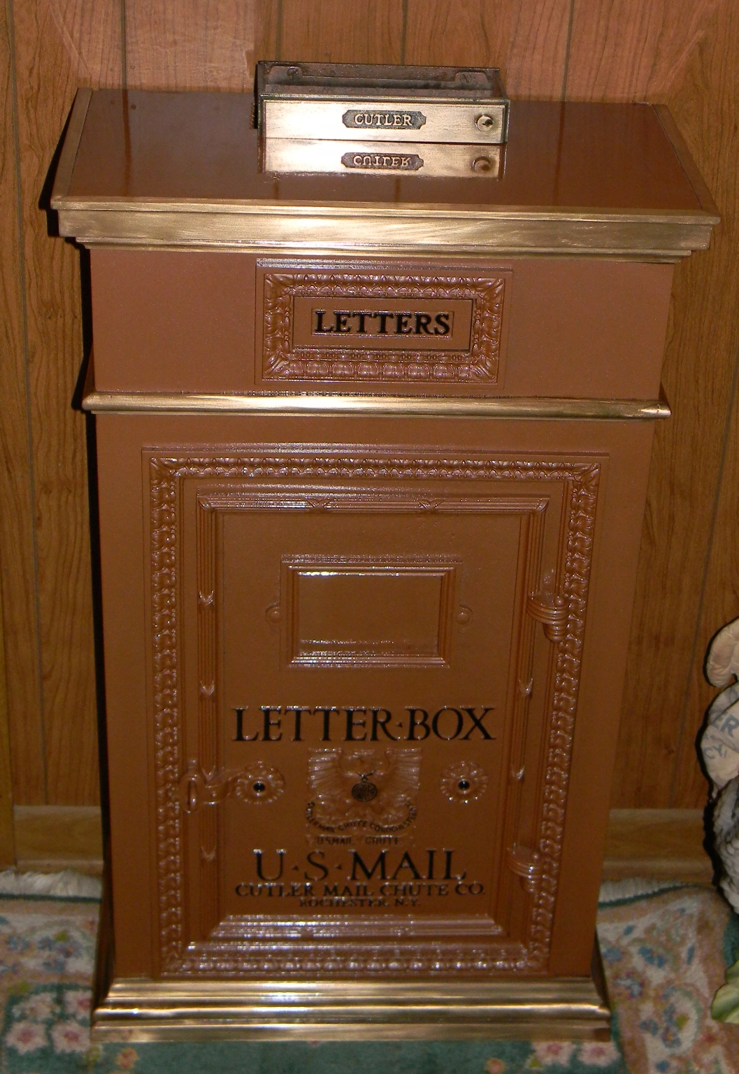 The restoration was completed by a Farmersburg, Indiana resident whose name and information appear on a plaque commemorating the chute box